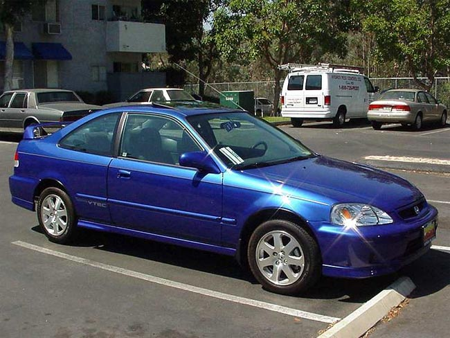 1999 Honda Civic SI